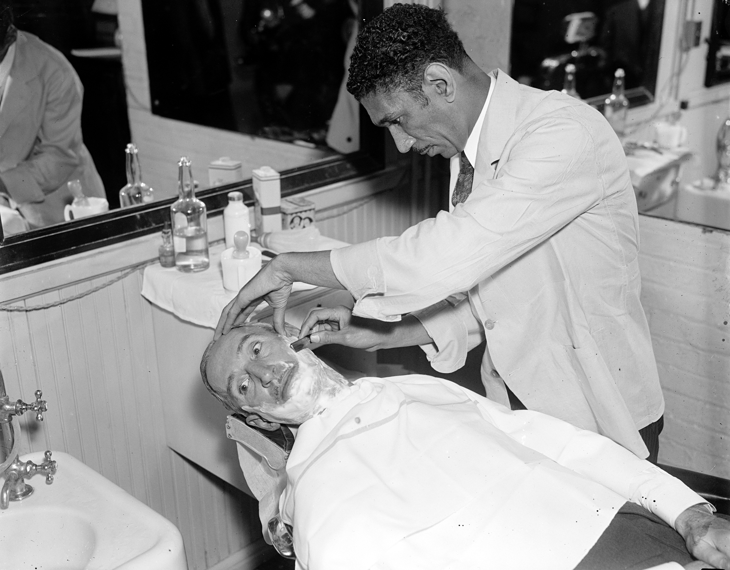 Guy V. Howard, US Senator from Minnesota, gets a shave at the Senate Barber Shop